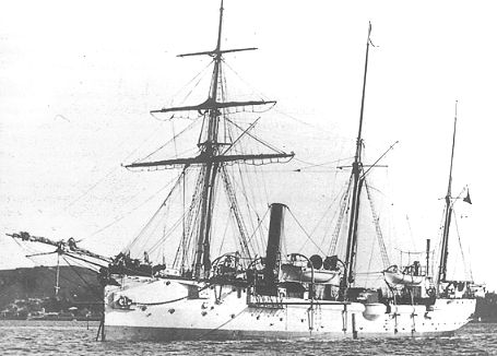 Photograph of British Redbreast class gunboat HMS Sparrow (from 1906 NZS Amokura).